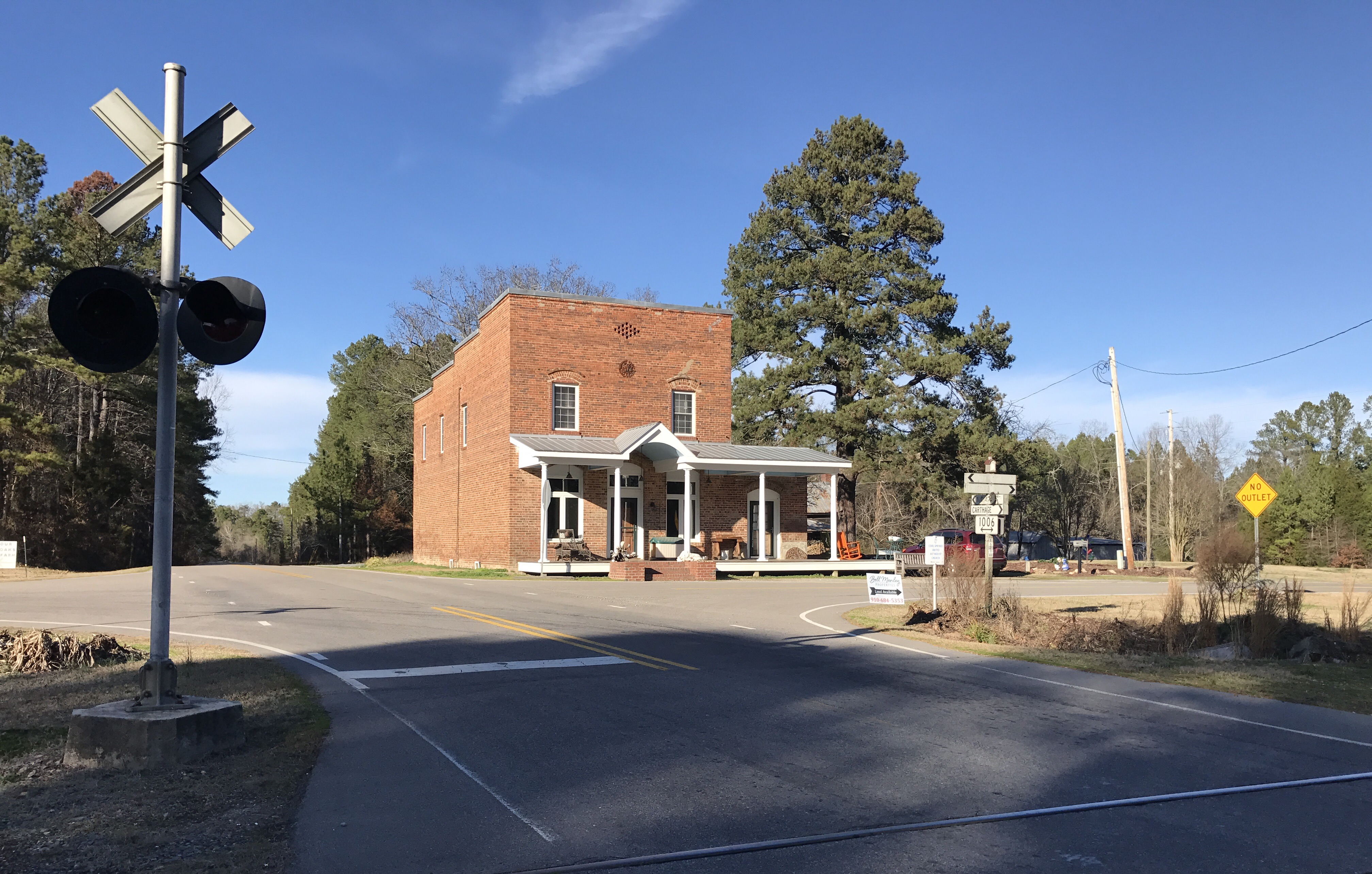 Crossroads in the center of Glendon. Brick building used to be post office